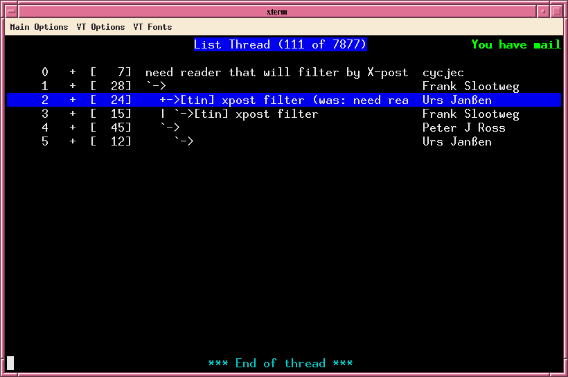 Screenshot of "tin newsreader" showing its threading of a newsgroup topic, made by Thomas E Dickey.